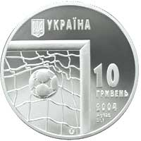 Coin of Ukraine